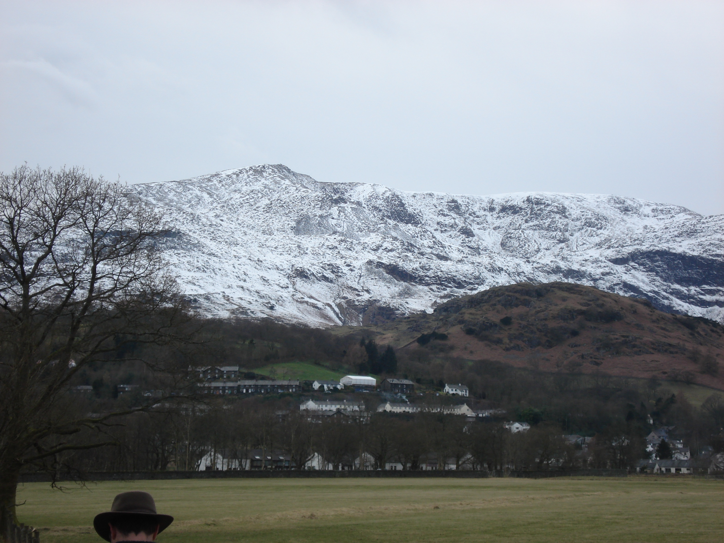 background: A mountain behind the village of Coniston foreground: Empty Feild